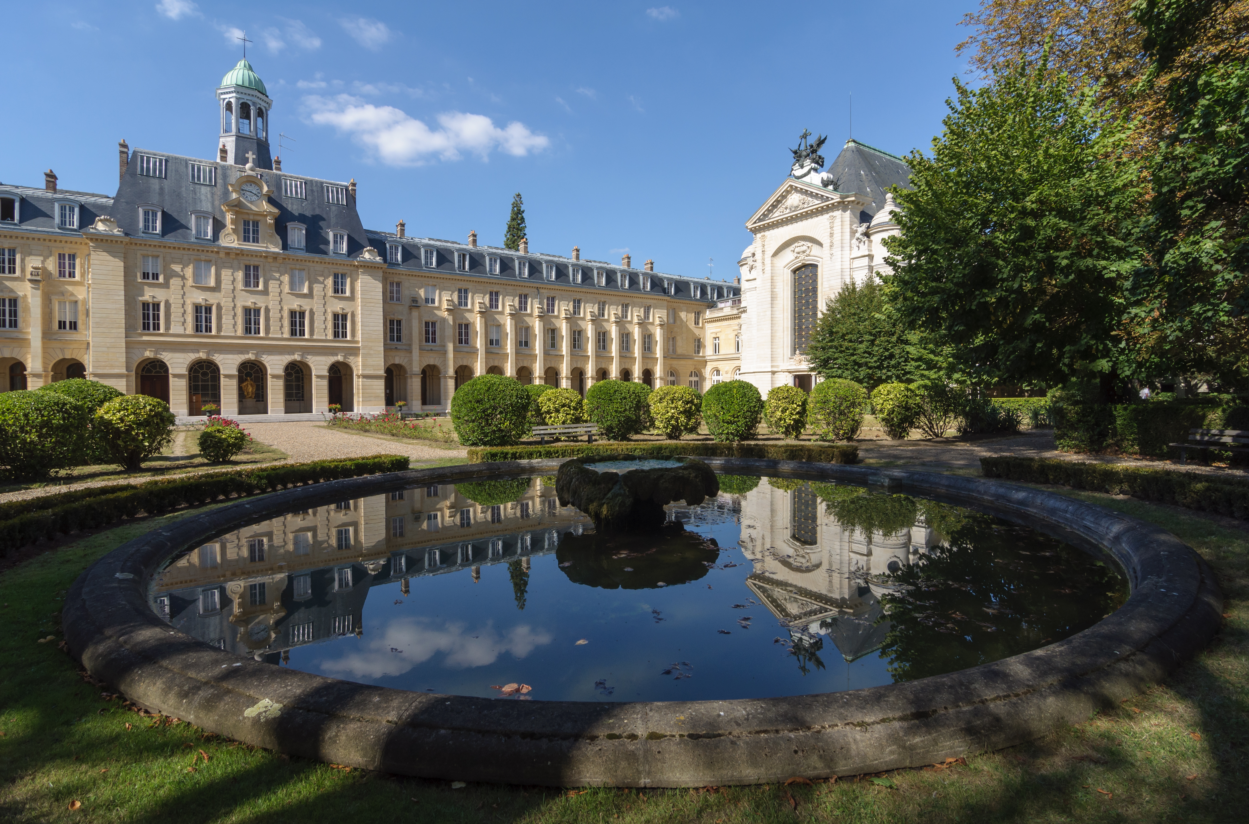 Saint-Sulpice Seminary in Issy-les-Moulineaux, Hauts-de-Seine, France: the main building and the big chapel, reflecting in the 17th-century round pond. .